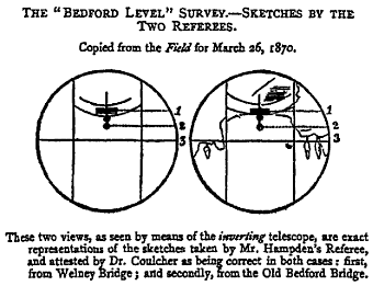 The view through the level used by Alfred Russel Wallace in the Bedford Level experiment, a wager between him and John Hampden to demonstrate the curvature of the earth. This diagram was printed in The Field, a sports magazine and reproduced in Wallace's autobiography.